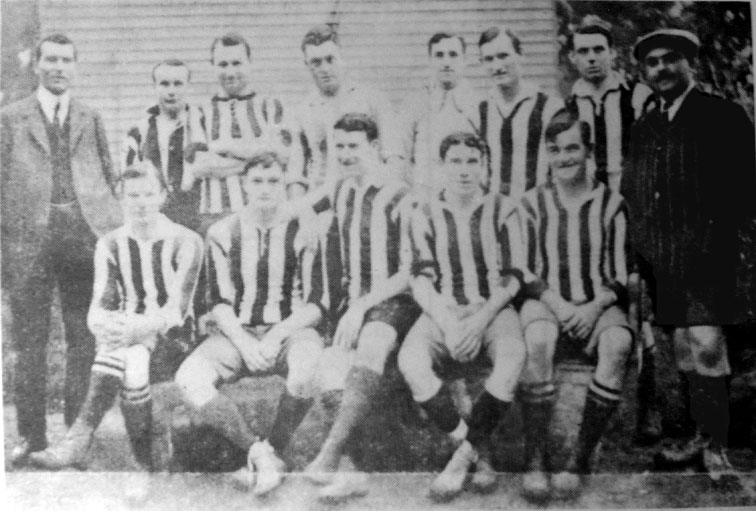 Argentine football team Alumni AC, which won its last championship in 1911 before being disolved.